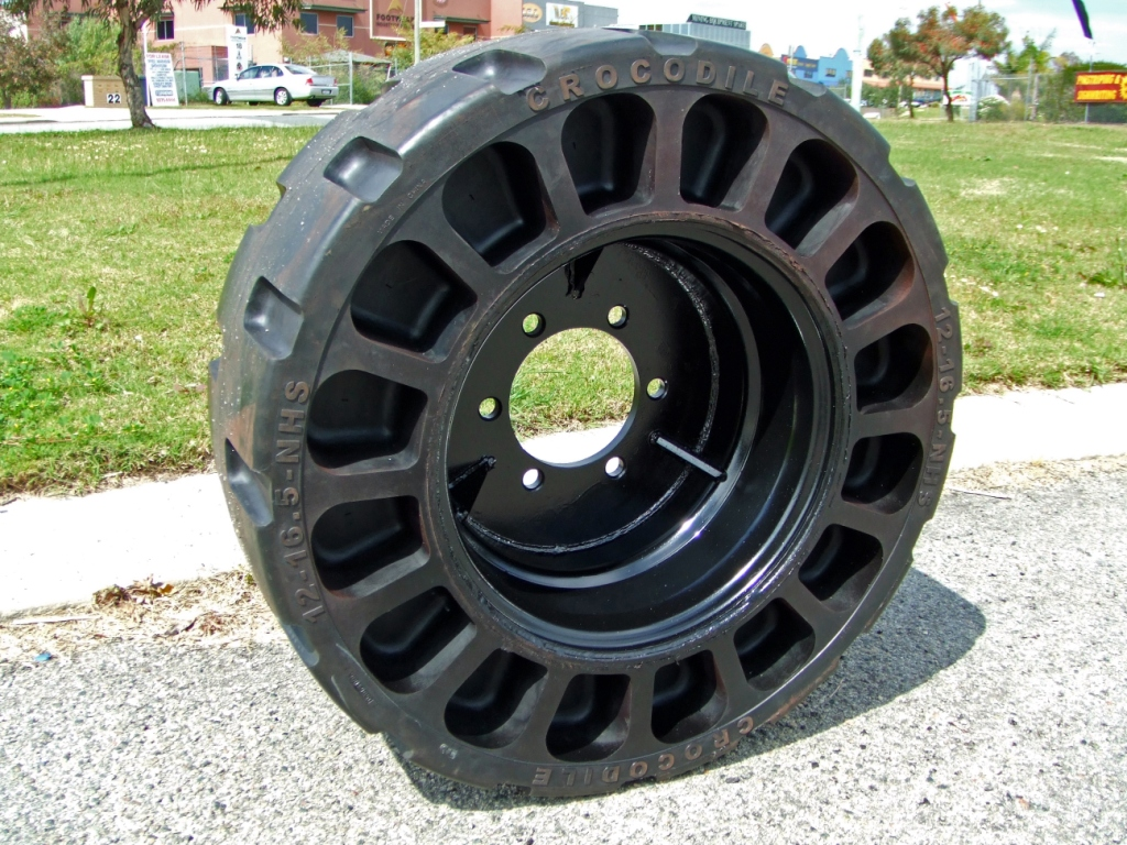 12-16.5 Mk1 Croc Tyre with rim centre fitted. 16 Mordaunt Cct, Canning Vale, 6155, WA Australia